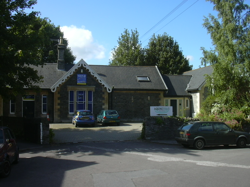 This station was on the Midland Railway between Bath and Bitton. It is in the suburb formerly known as "Lower Weston", about a mile to the south-east of Weston village (or "Upper Weston"). In 2007 it was owned by Bath FM a local radio channel, (allowing a punning re-use of the word "station"